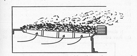 Fig. 179 Furnace of a Lancashire or Cornish boiler Conditions good; air passing through the fire to flues; maximum temperature of furnace; fuel incandescent; fresh fuel added in light charges; supplementary air supply through adjustable grid in fire-door for a few minutes to burn smoke.